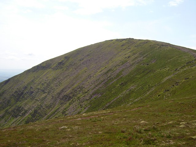 Summary: Knockmealdown County Waterford, Ireland: east face and summit (794m). The screes are steep and barren looking, but there were sheep grazing there Author: Richard Webb URL: Licencing tag